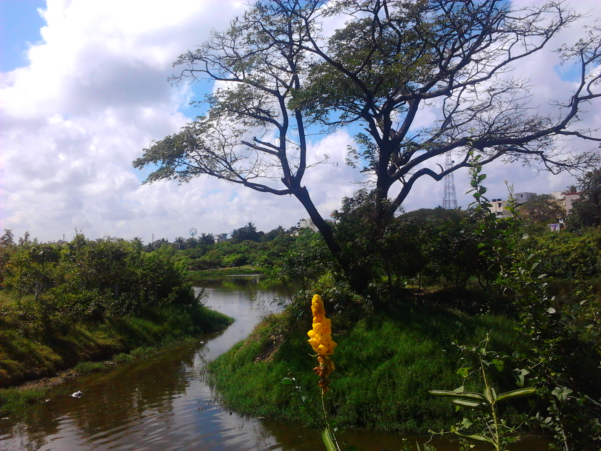 Photoed using Samsung Wave 525.